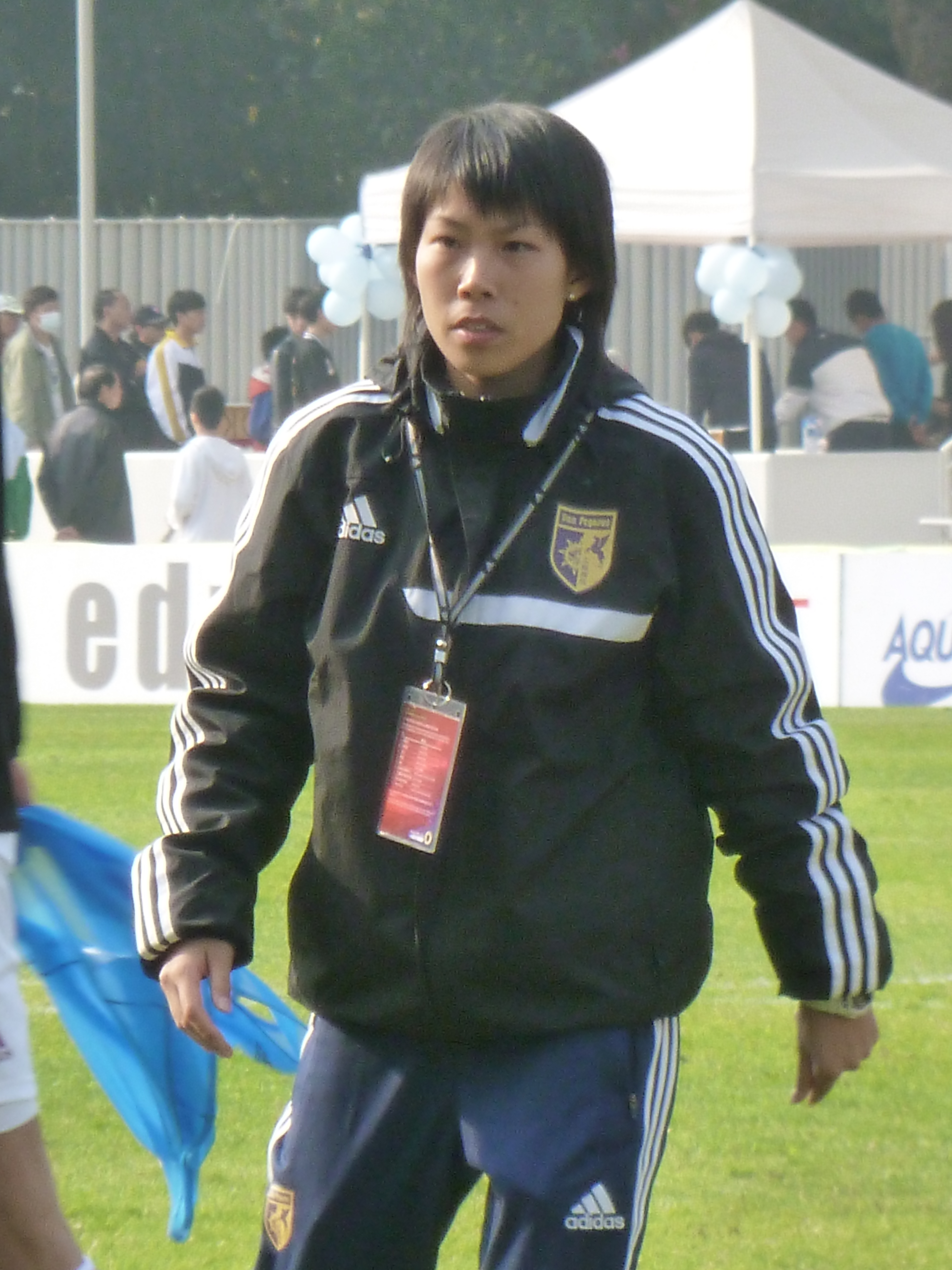 Chan Yuen Ting (19 Jan 2014, Hong Kong First Division League, Kitchee vs Pegasus, Mong Kok Stadium) 中文（香港）: 陳婉婷 (19 Jan 2014, 香港甲組足球聯賽, 傑志 vs 飛馬, 旺角大球場)